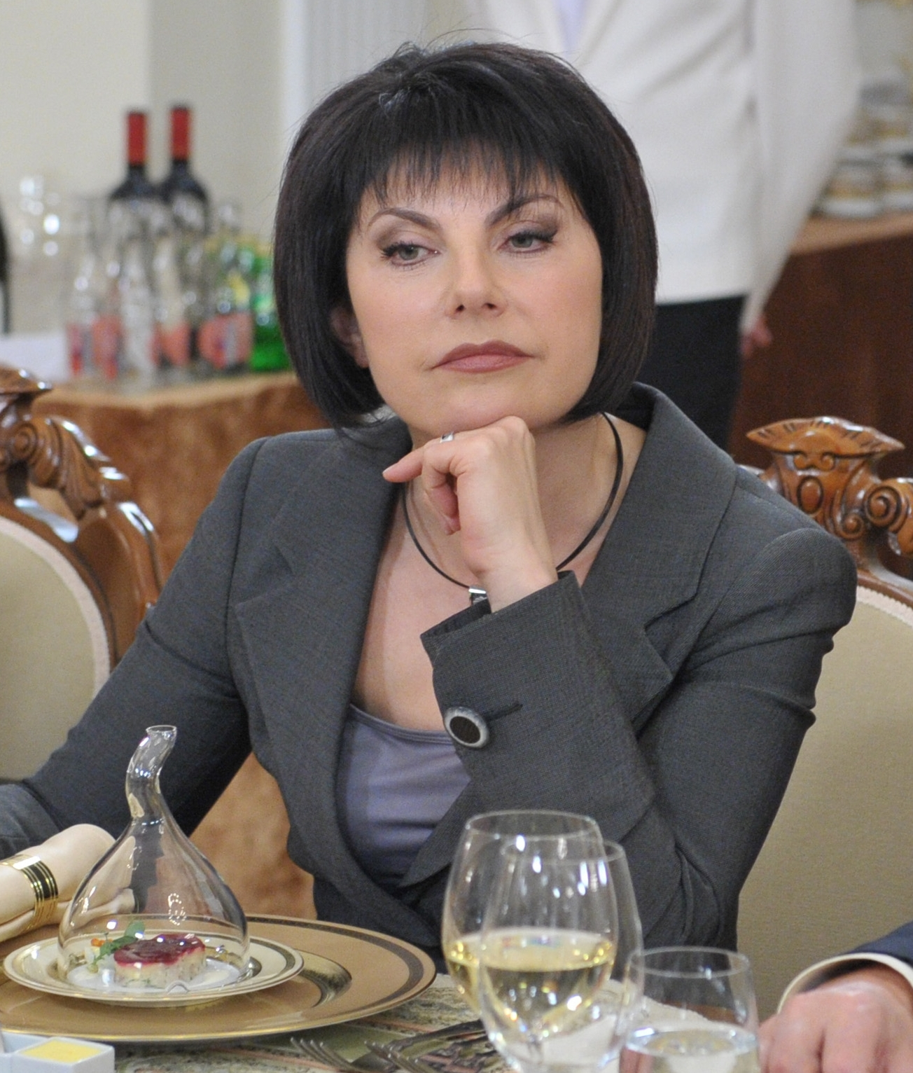 NTV TV channel's news service editor-in-chief Tatyana Mitkova during Russian Prime Minister Vladimir Putin's meeting with heads and chief editors of Russian television companies and printed media at Novo-Ogaryovo residence.